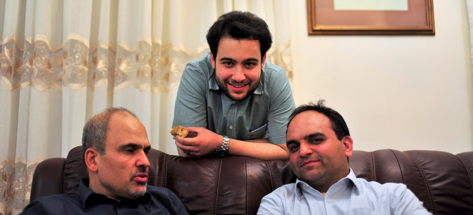 More photos